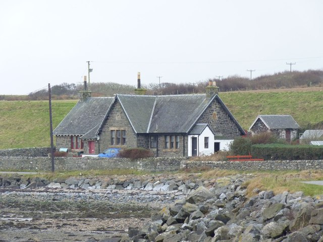 Gortan School House, Islay